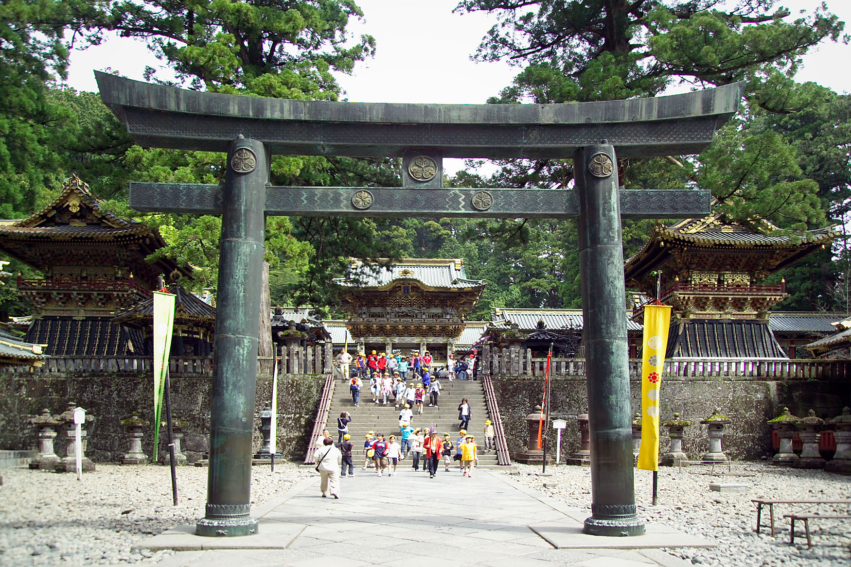 This bronze torii 唐銅鳥居 stands in the Toshogu, Nikko, Tochigi Prefecture, Japan, a UNESCO World Heritage Site. The famous carvings of the three wise monkeys who hear no evil, see no evil, and speak no evil are behind the photographer, to the right. The kami jinko is to the right. The Drum Tower is visible in the background to the left of the torii, and the Bell Tower to the right. The Yomeimon is at the top of the stairway in the center. I took the photo and contribute the file to the public domain. However, people and institutions may retain rights to images in it.